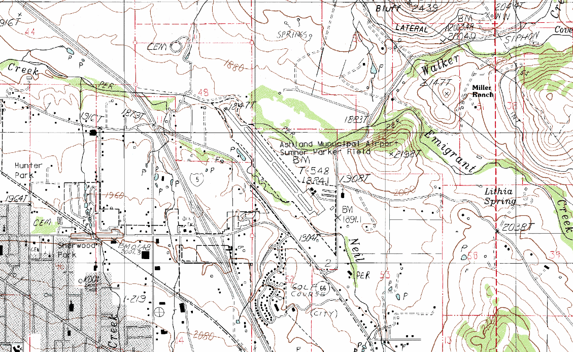 USGS digital orthophoto of Ashland Municipal Airport in Oregon